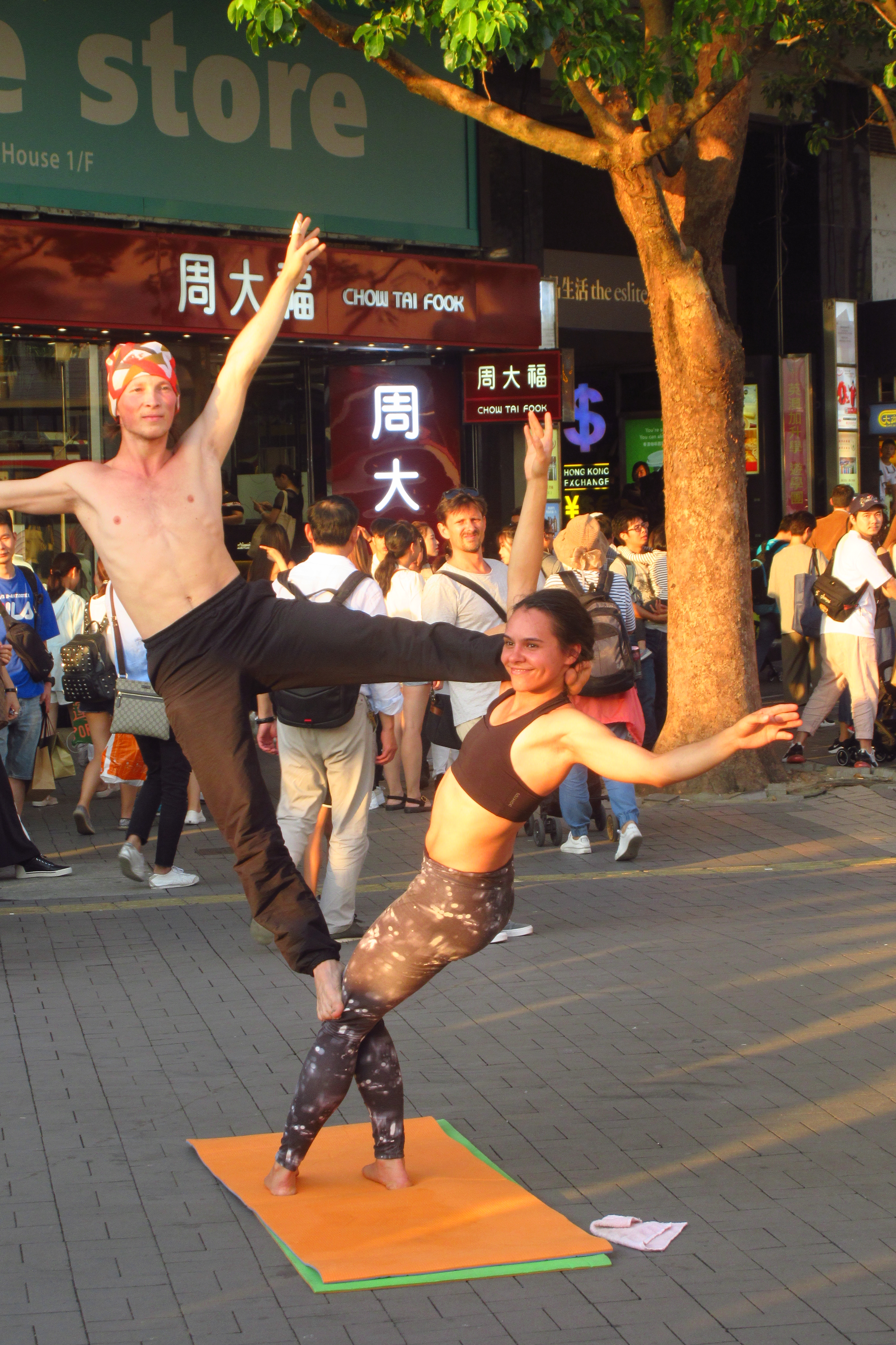 HK TST Russian 技巧體操 acrobatic gymnasts 街頭藝人 street performers 梳士巴利道Salisbury Road round the world tourist in October 2018